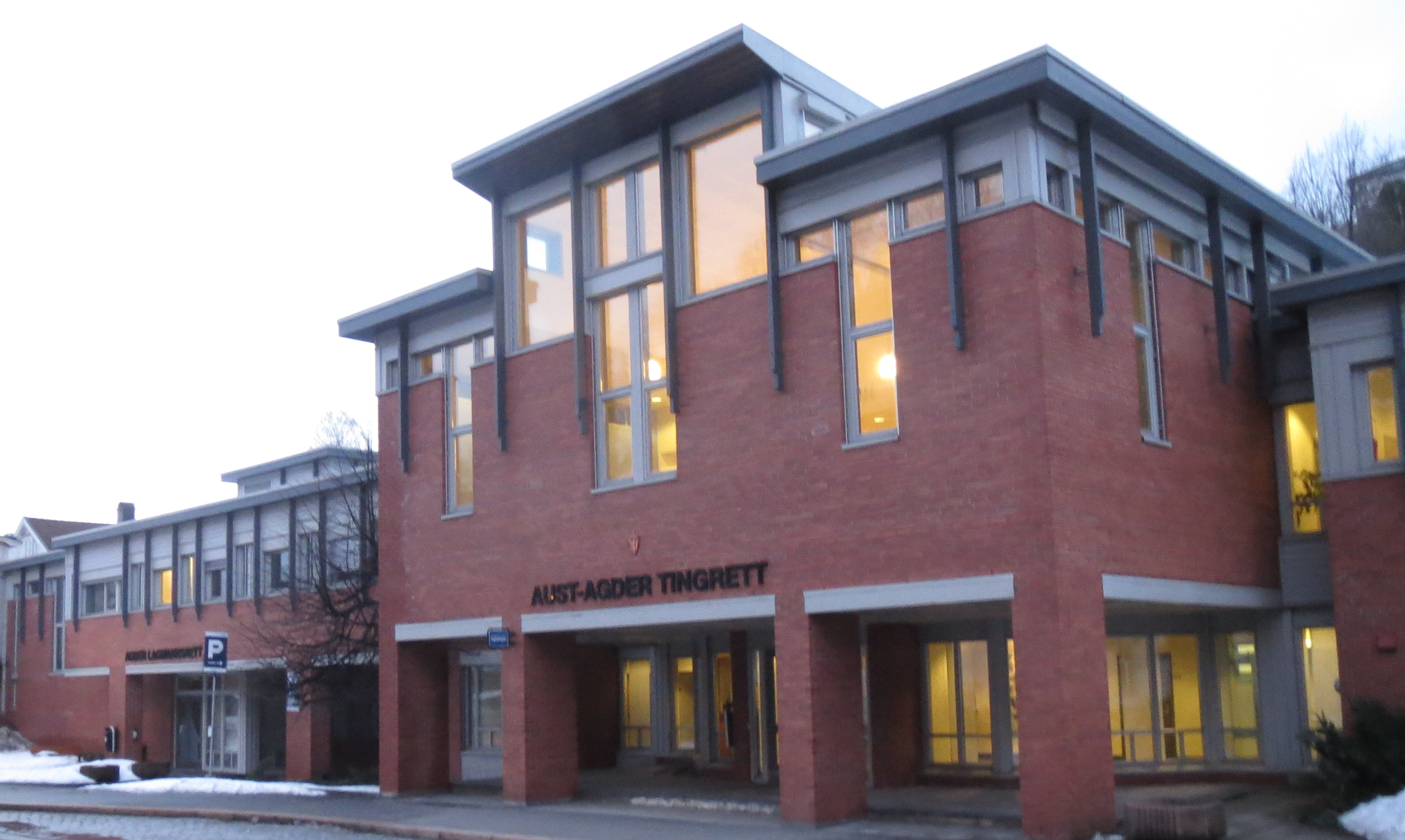 Arendal Courthouse, Arendal, NorwayNorsk bokmål: Arendal tinghus, Arendal, Norge inkl. Aust-Agder tingrett og lagmannsrettssaler for Agder lagmannsrett